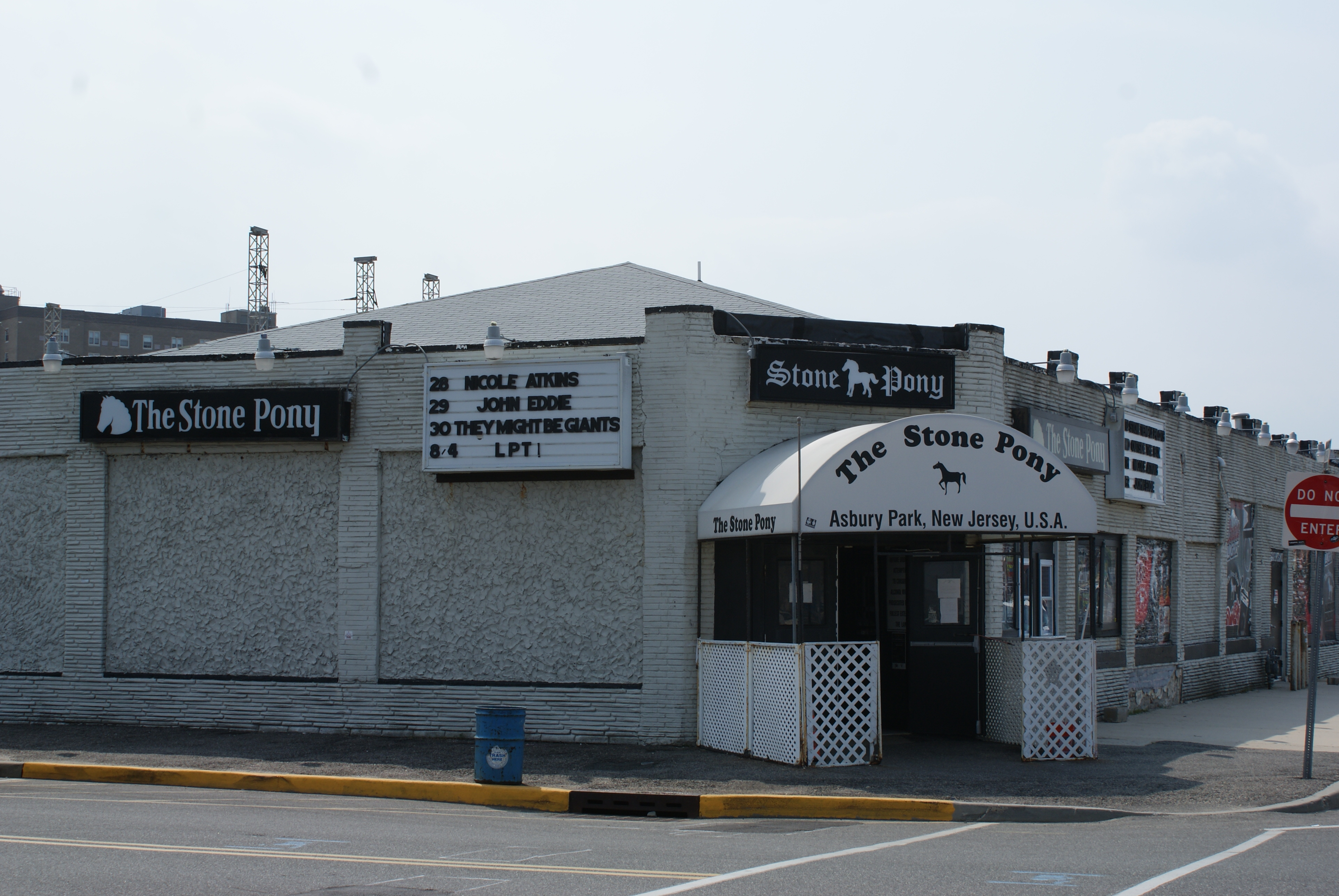 The Stone Pony in Asbury Park, New Jersey, USA in 2011